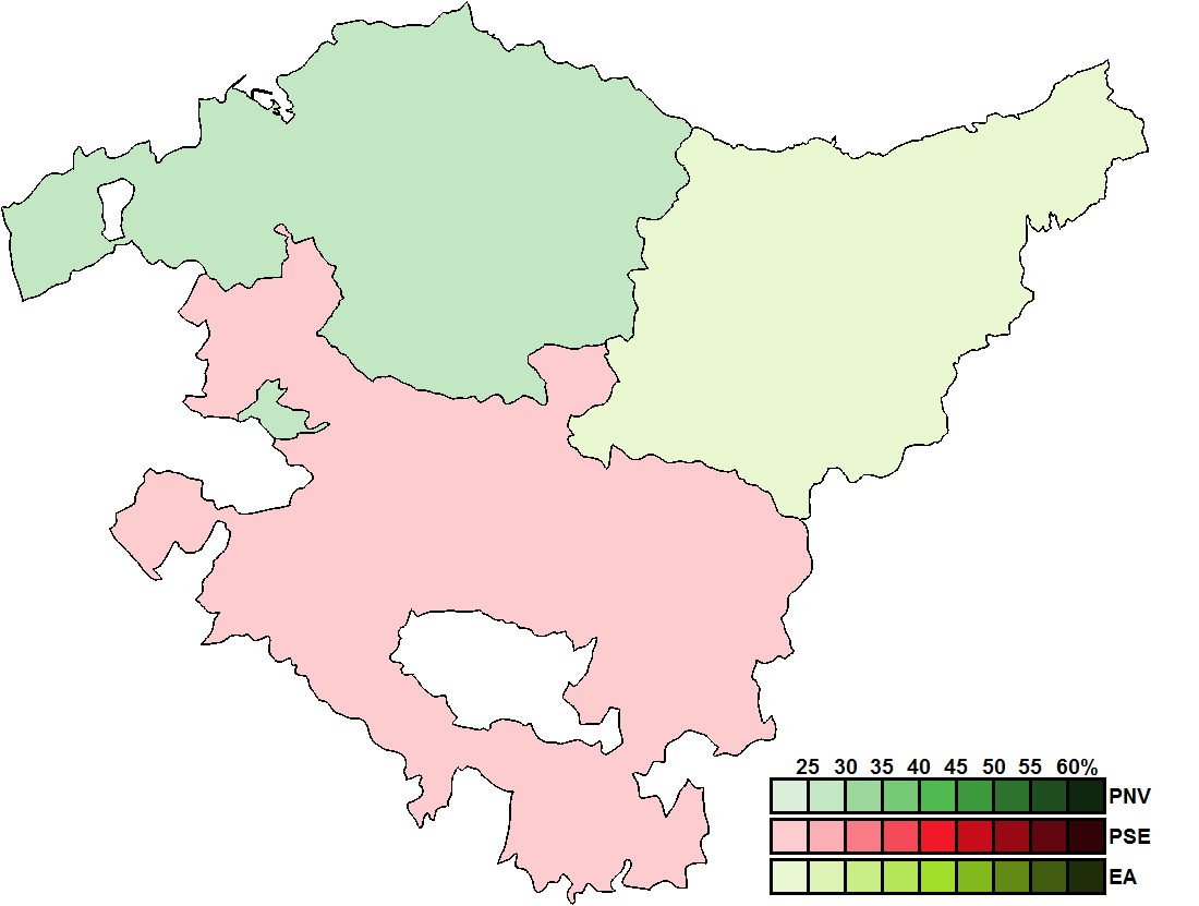 Provincial results for the 1986 Basque regional election.